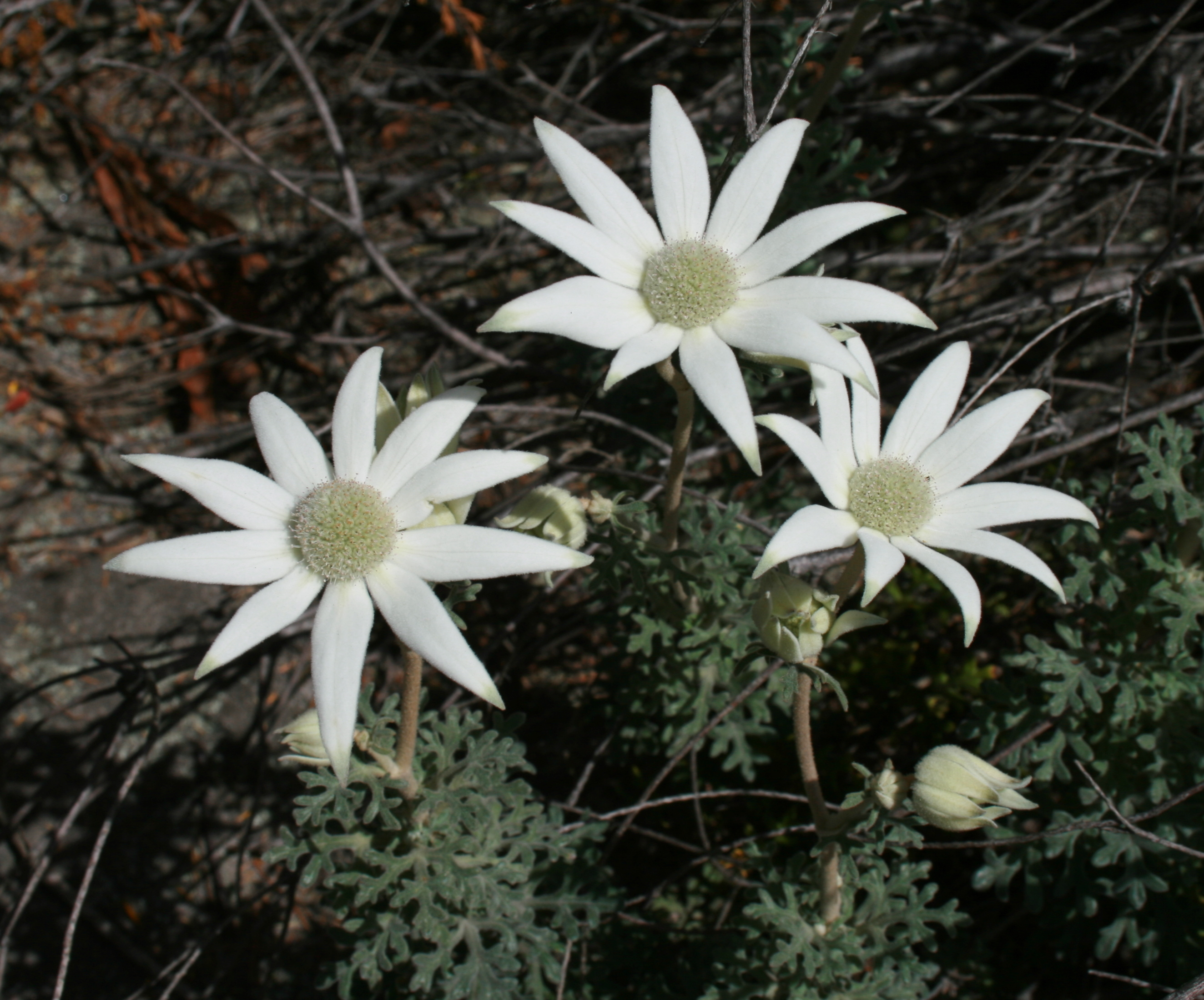 Flannel Flowers (Actinotus helianthi) in the Grotto Point Reserve, Sydney, New South Wales, Australia.